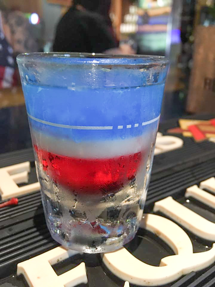 A Patriotic shot.